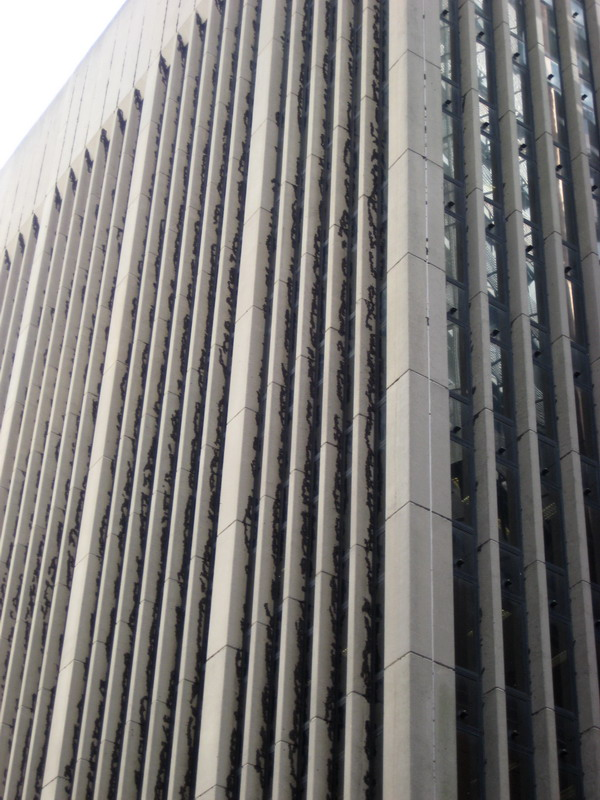 Bogong Moths on 56-70 Phillip Street, Sydney, October 2007